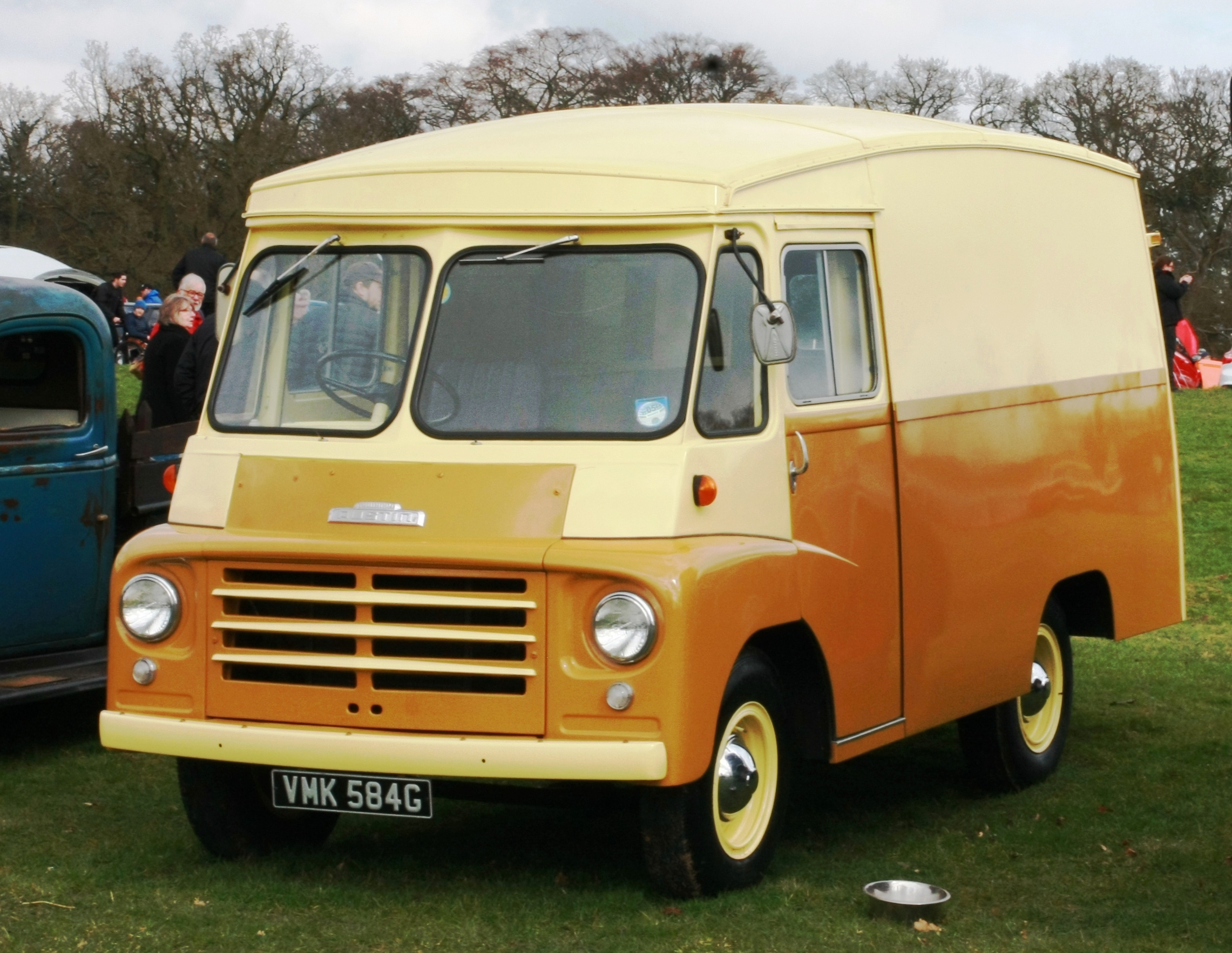 Austin aka BMC LD van (1968)